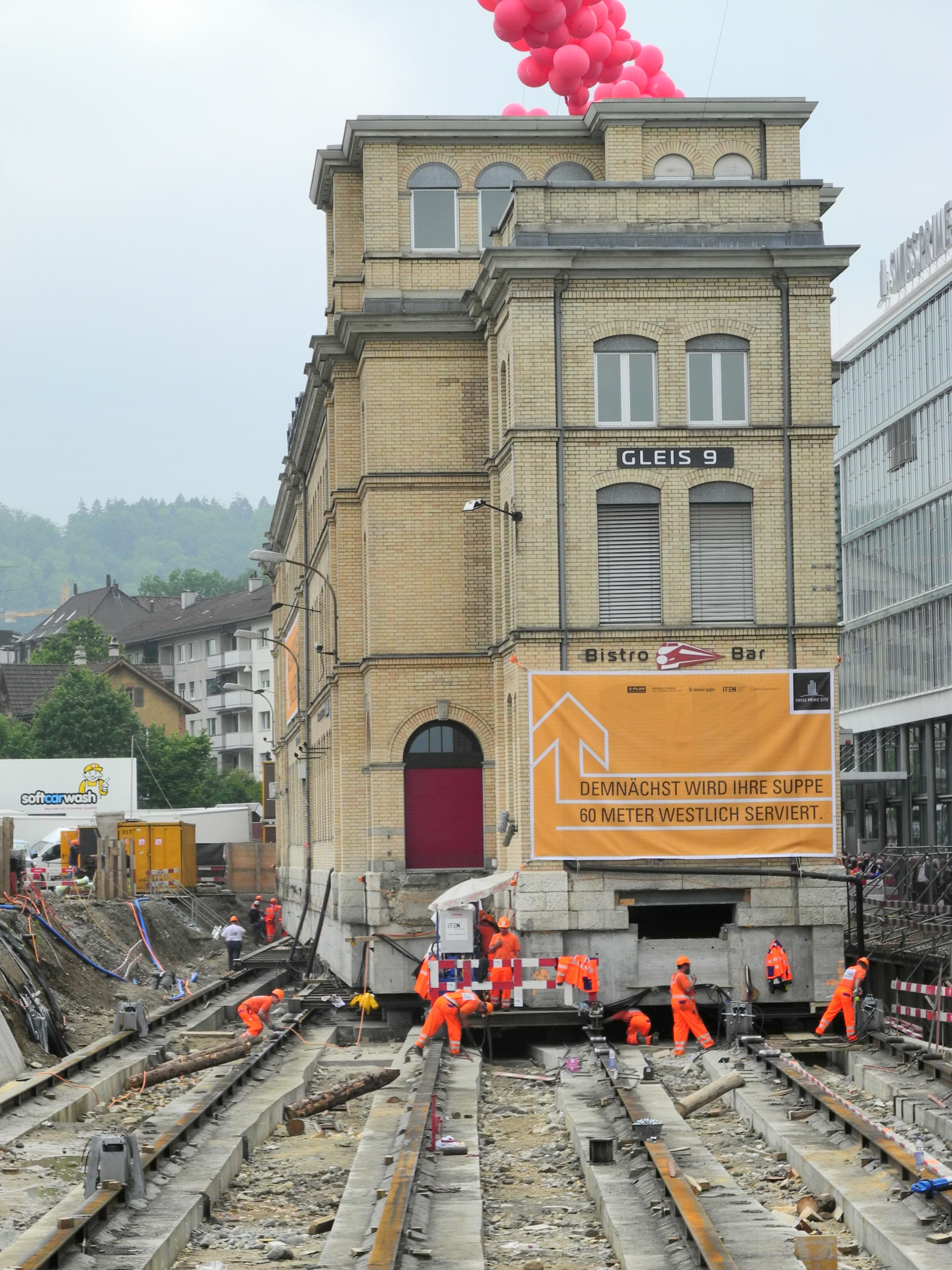 Gleis 9 in Zürich-Oerlikon (Switzerland) at the Oerlikon railway station moving to its new location